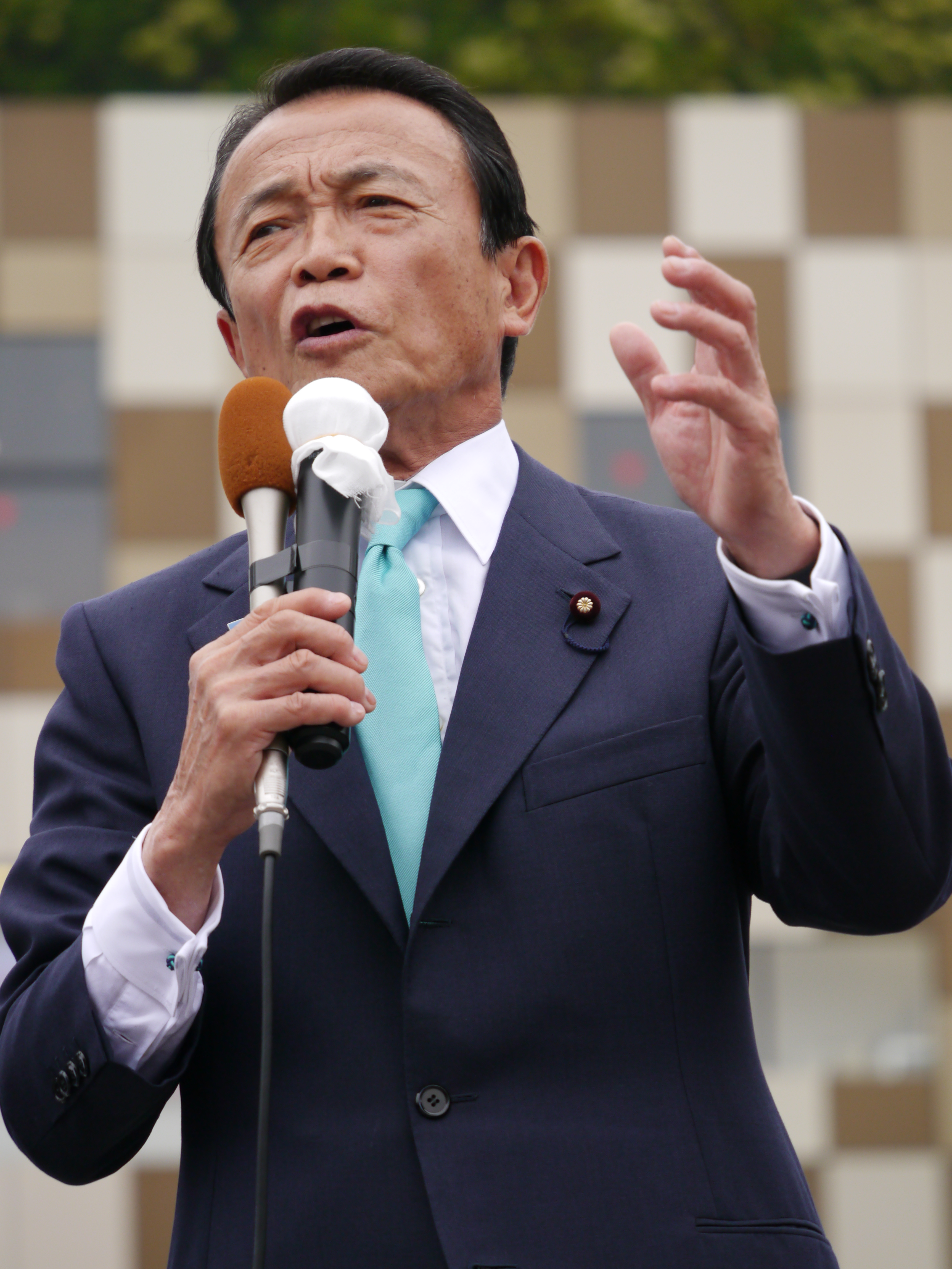 Aso taro.